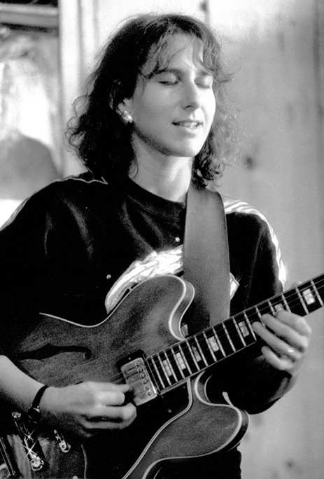 Emily Remler at Bach Dancing & Dynamite Society, Half Moon Bay CA 1984; 2010 Brian McMillen